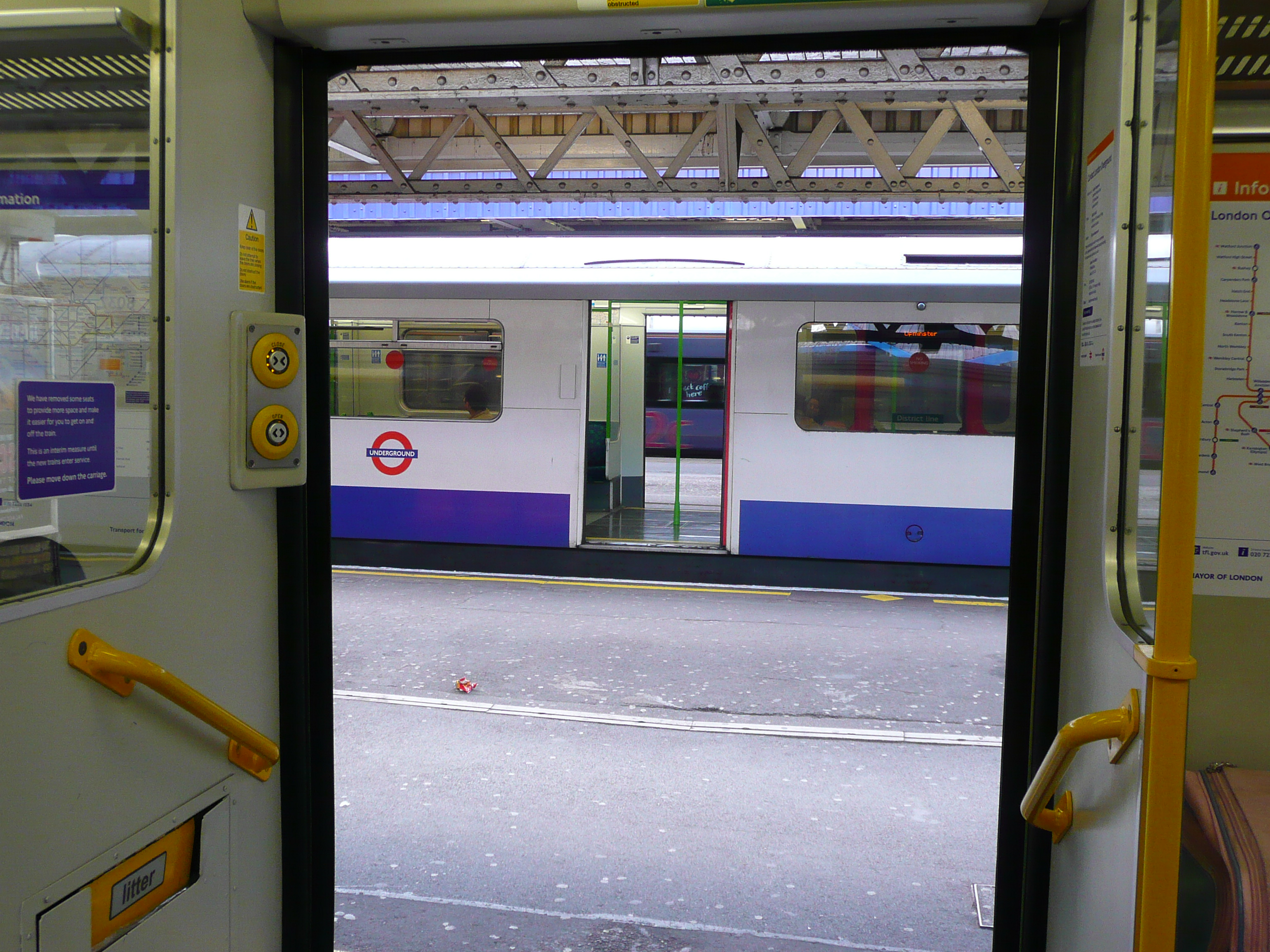 Double cross platform interchange looking from one train through another train (which has its doors open on both sides) to see a third train! This image comes from Barking station in London where the eastbound underground trains open their doors on both sides so as to provide cross-platform interchange with two different mainline railway services, these being the C2C service between Fenchurch Street and Shoeburyness stations (as seen on the other side of the District Line train) and the London Overground Barking - Gospel Oak service, with this photograph having been taken inside one of the trains on this route.